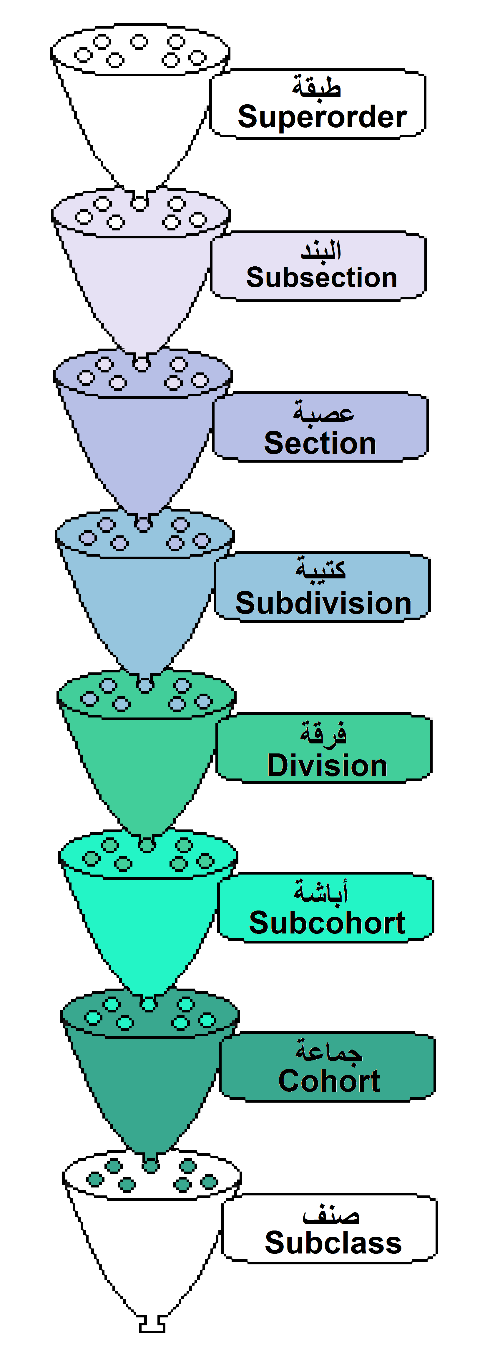 Taxonomy classification from Cohort to Subsection (Zoology mainly)